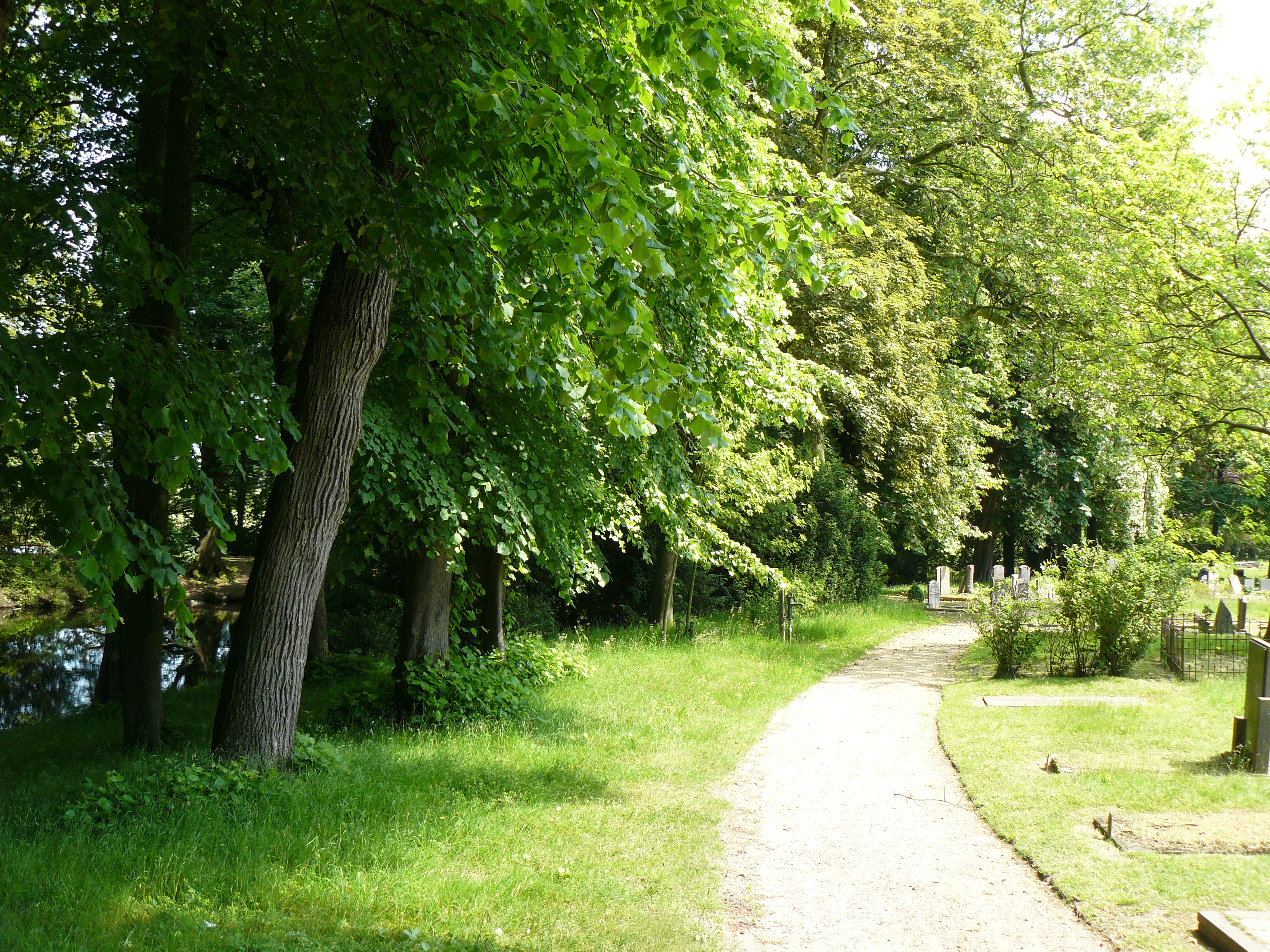 General Cemetery Zutphen, left part of the central island as seen from the entrance